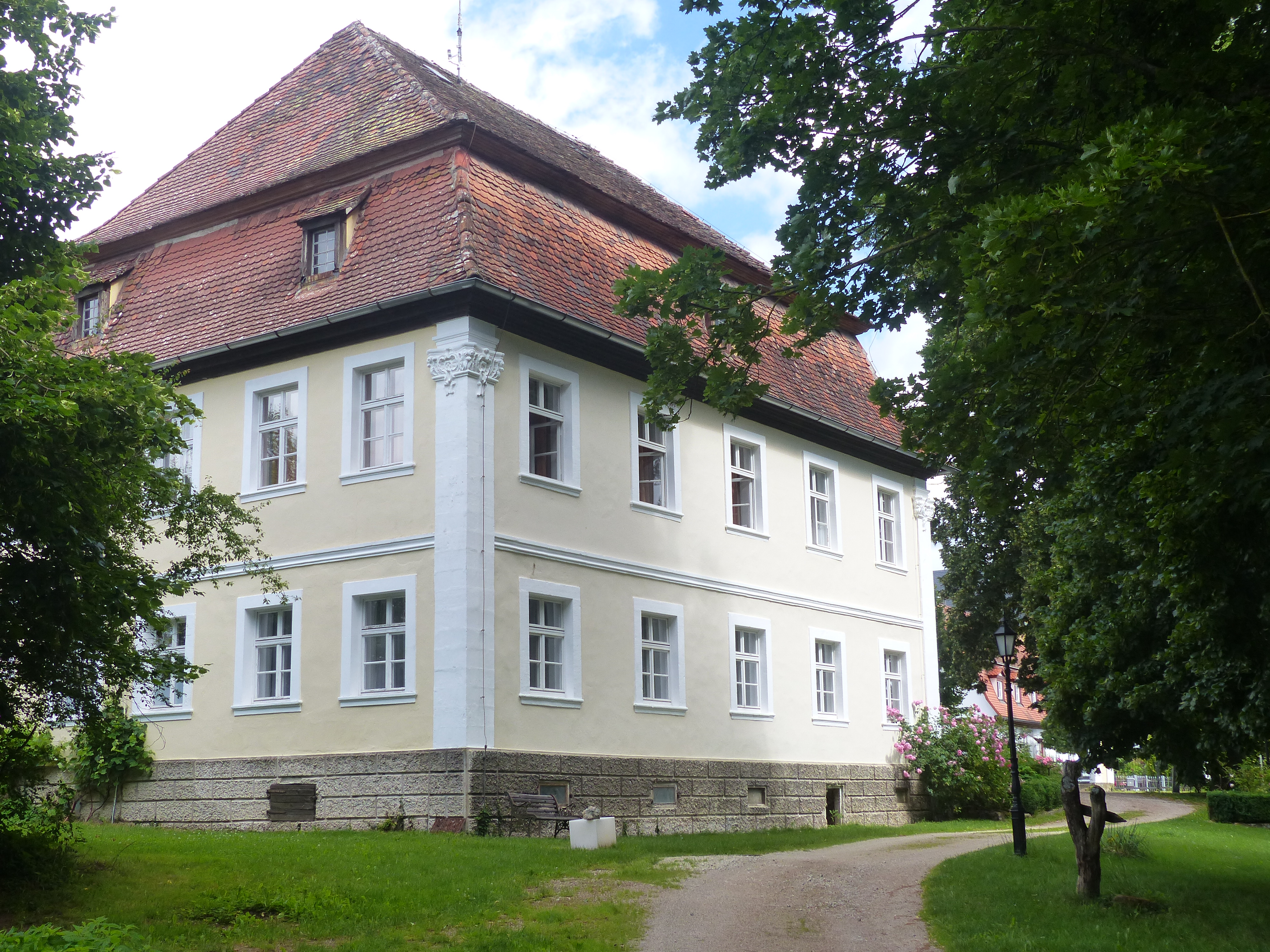 The former Amtshaus (official residence) of the Amt Burgellern, an administrative district of the Prince-Bishopric of Bamberg.